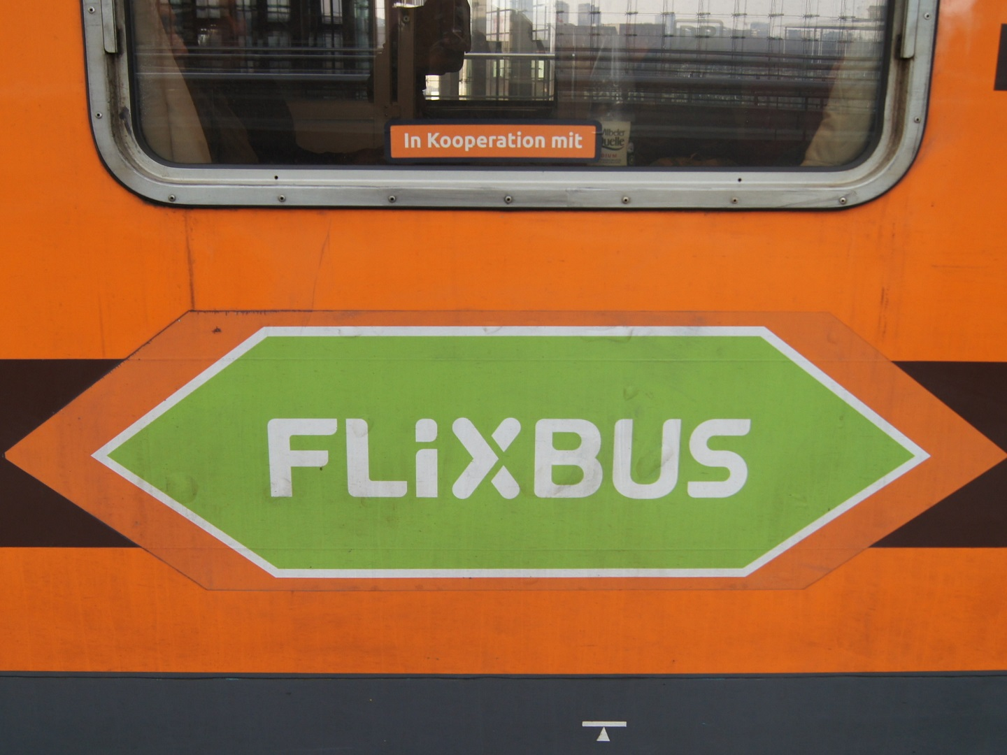 Flixbus logo on the Locomore train